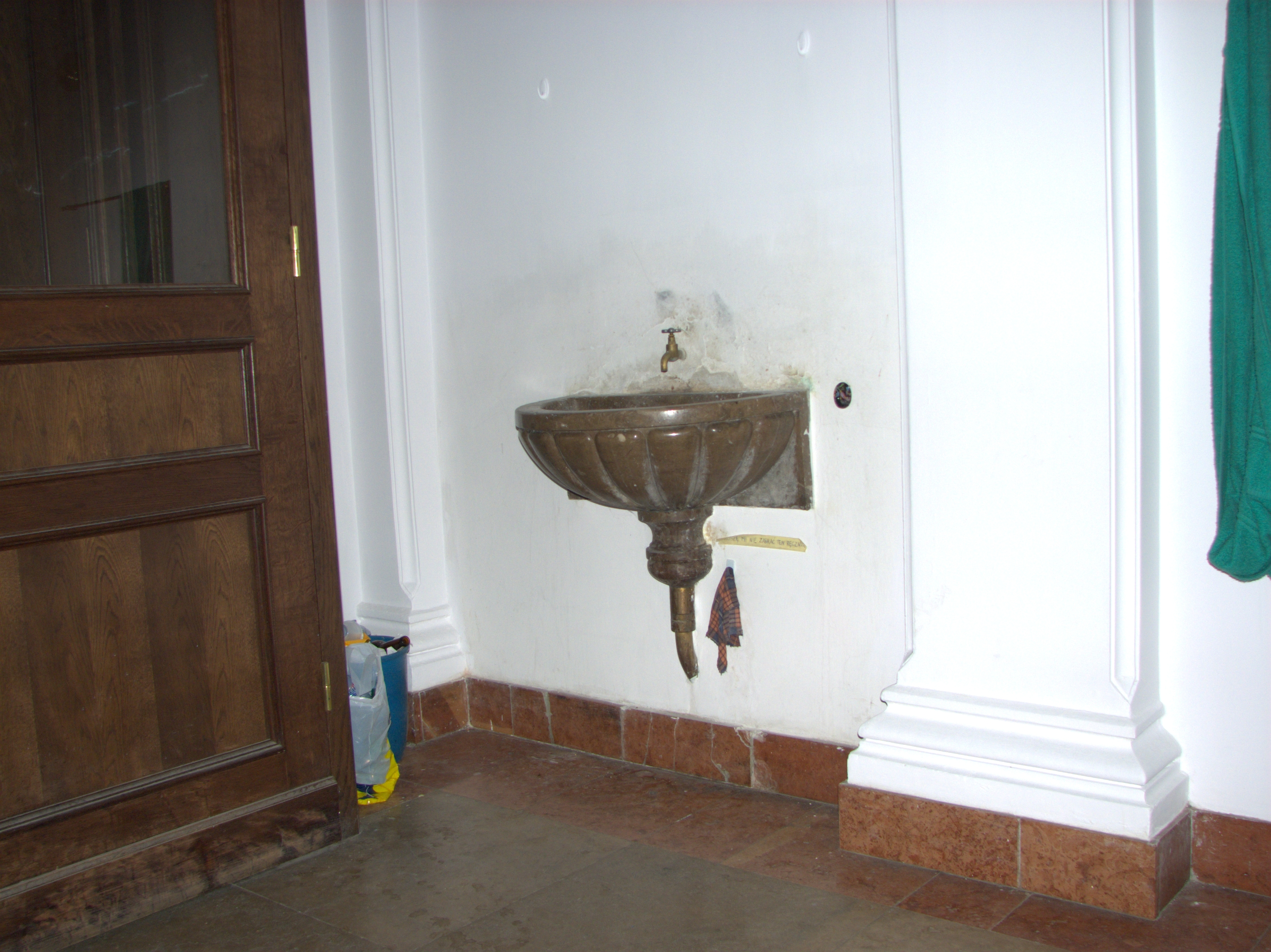 Trip to the Nozyk Synagogue